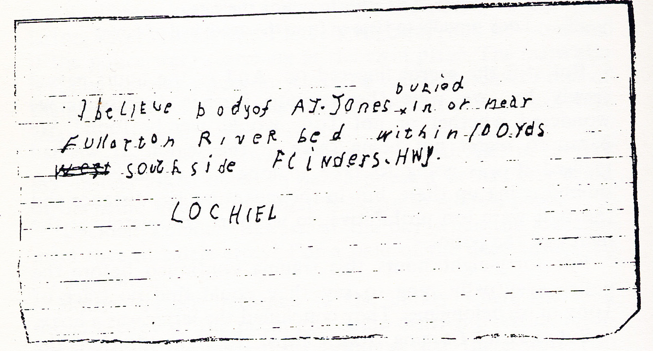 Letter describing the location of the body of Anthony John Jones